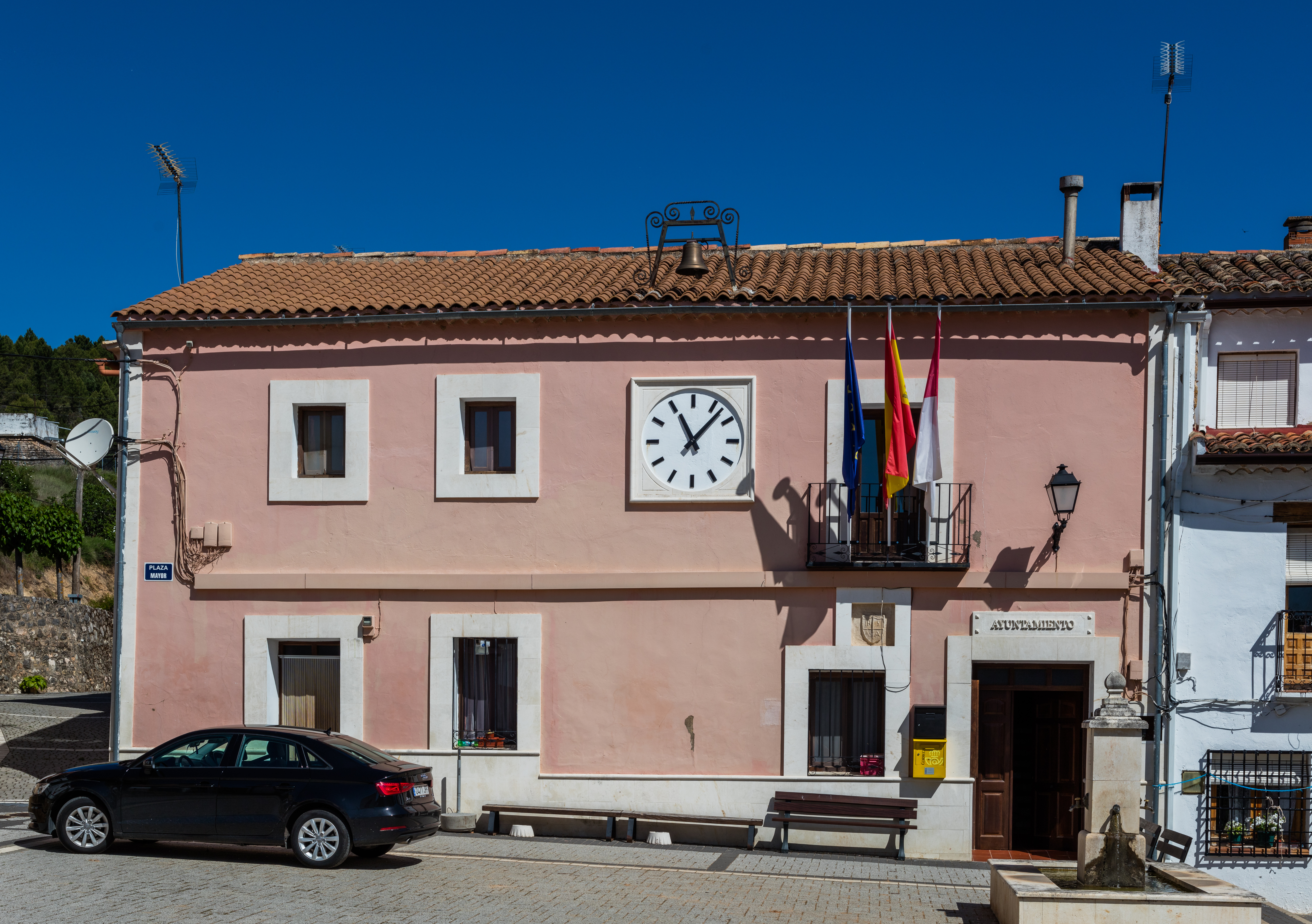 Vindel, Cuenca, Spain